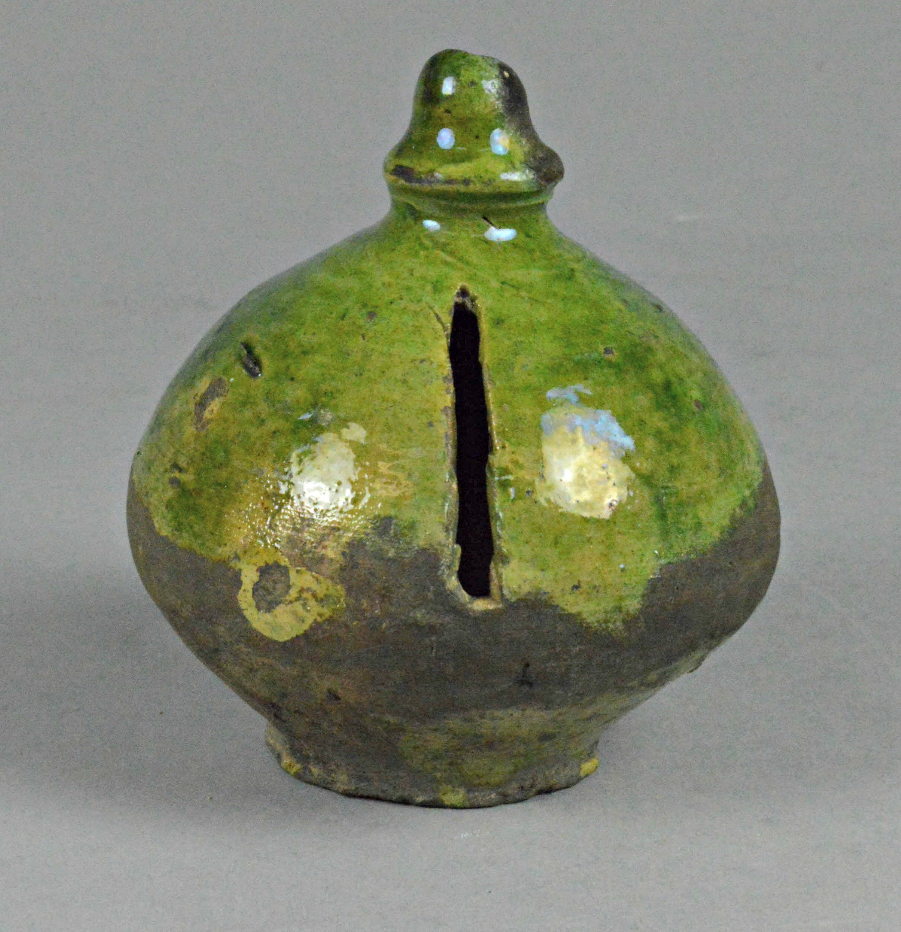 16th century Tudor money box, sometimes referred to as a Tudor money pot. Commonly used in Britain from the 1300s to the 1600s. Sealed pot with vertical coin slot for depositing coins. Money would be retrieved when the pot was full, by smashing the pot.